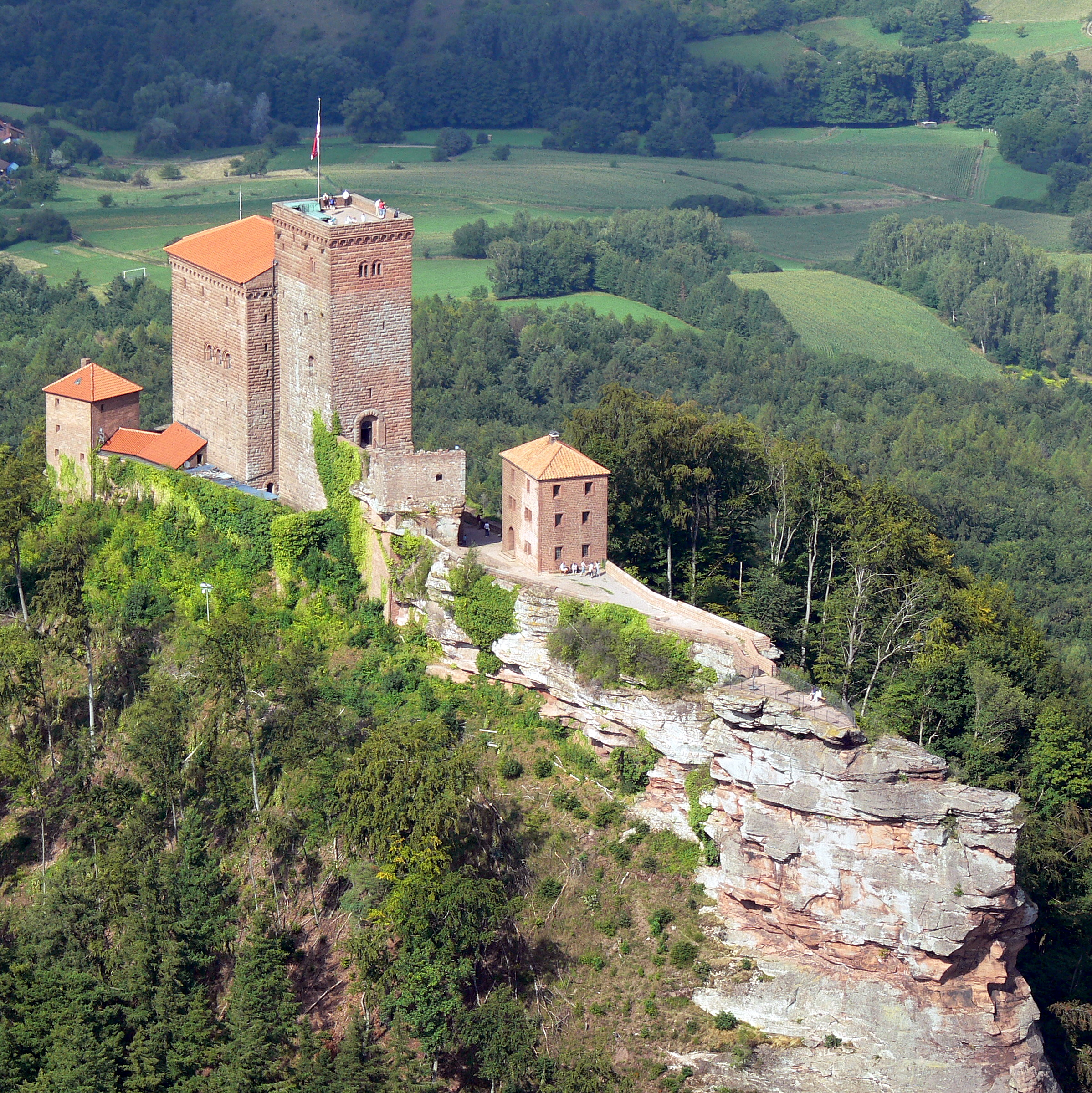 Trifels Castle